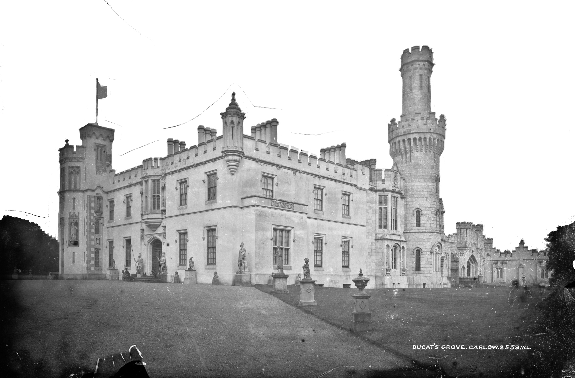 This fairytale castle in Co. Carlow looks more like a child's dream than a mature person's reality. Lines of statues leading to a door guarded by armoured spear bearers. All this was bound to deter the faint hearted! As attested by the contributions on this image (and the associatied Wikipedia article), while the main structure of Duckett's Grove remains, the statues and interiors do not. Home to the Duckett family for several hundred years, it was never fully occupied following their departure in 1916 - and the main building was destroyed by fire in 1933. While the interiors were never redeveloped, some life has returned to the place - with events, tourism and gardens that form part of the Carlow Garden Trail... Photographer: Robert French Collection: Lawrence Photograph Collection Date: Catalogue range c.1865-1914 NLI Ref: L_CAB_02553 You can also view this image, and many thousands of others, on the NLI’s catalogue at